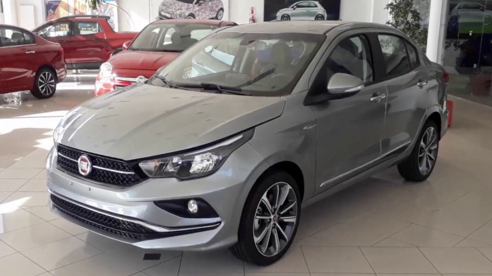 Fiat Cronos Precision MY2018 with 1.8 E.Torq flex engine